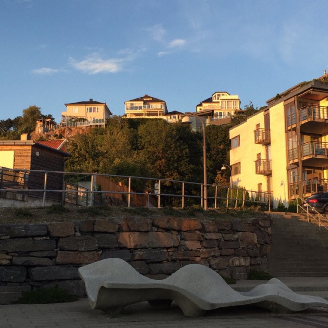 Høivold Brygge, Kristiansand